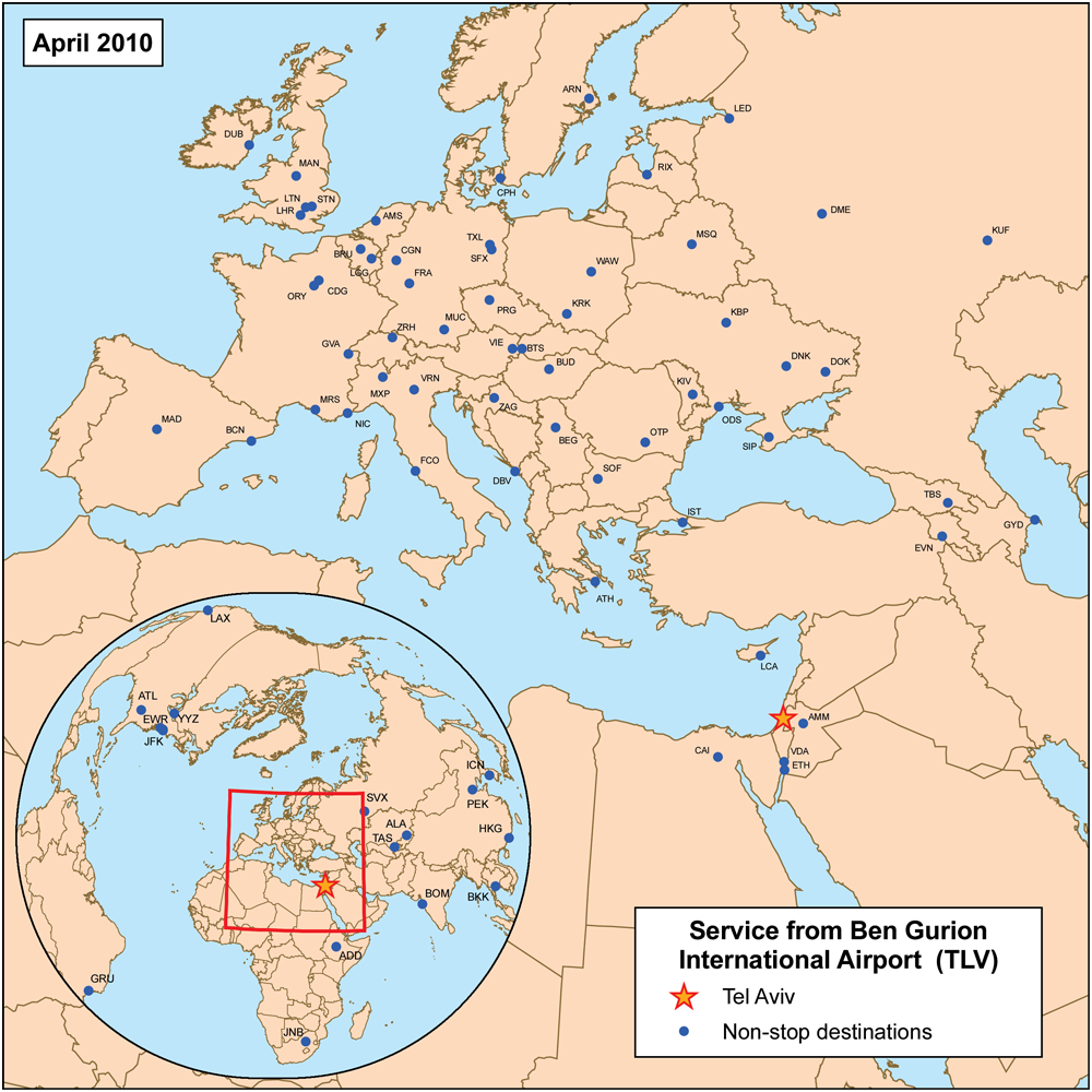 This is a route map for Ben Gurion International Airport as of April 2010. Map is an Azimuthal equidistant projection centered on the airport so straight lines from Tel Aviv are along great circle routes. Map shows only regularly scheduled destinations, charters are not included.